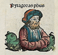 Illustration from the Nuremberg Chronicle